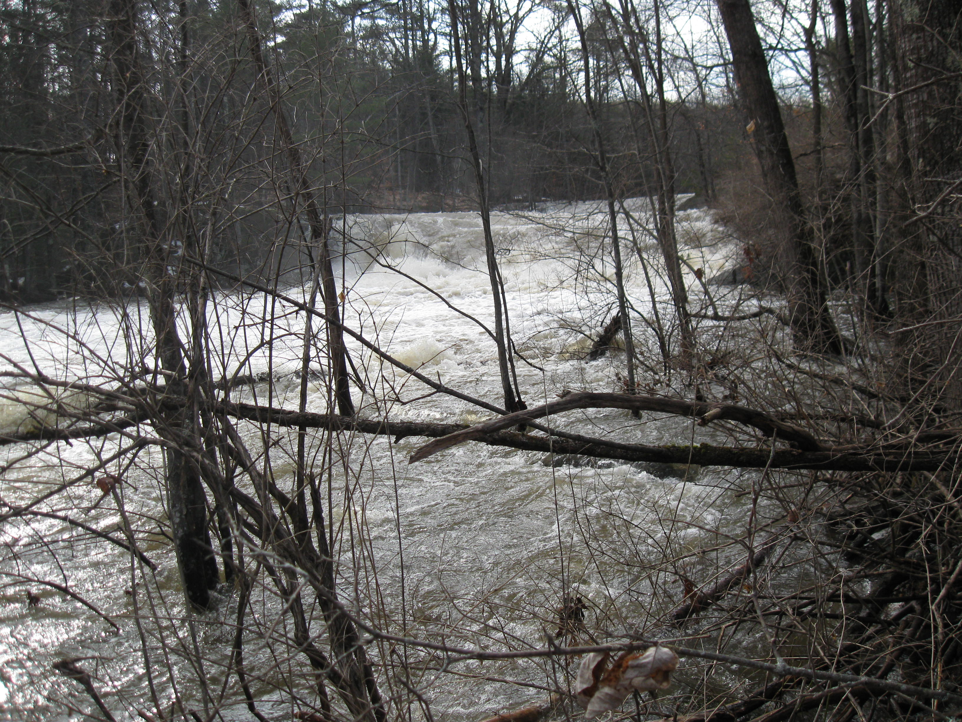 The Pleasant river in Gray, Maine next to rt 4 after record rainfall in the spring of '10.